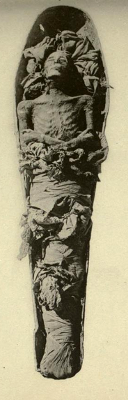 Mummy of pharaoh Amenhotep II, found in 1898 in his theban tomb (KV35).